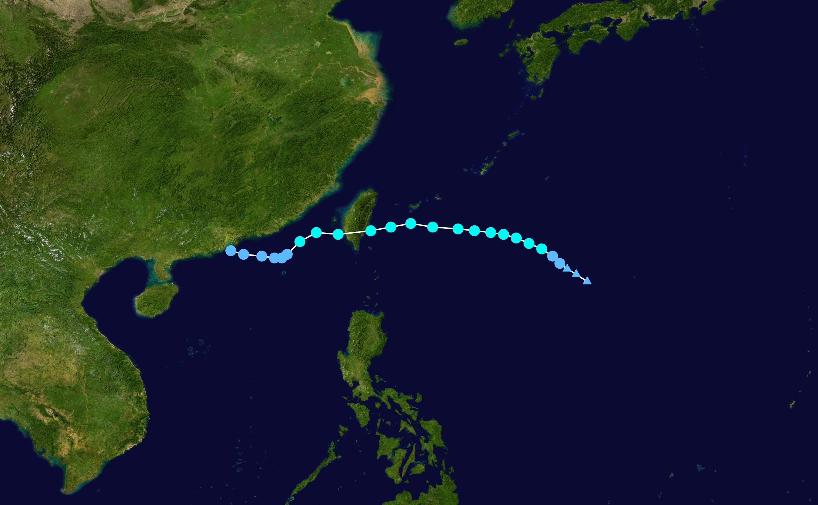 Tropical Storm Bopha (2006) track. Uses the color scheme from the Saffir-Simpson Hurricane Scale.